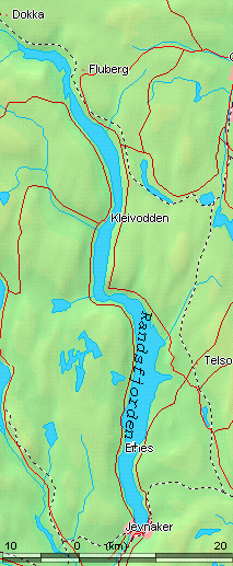 DEMIS World Map Server generated this map from Public Domain sources. DEMIS does not claim any rights over the resultant image ([1]). Randsfjorden lake caption was added by User:TheGrappler, the uploader.